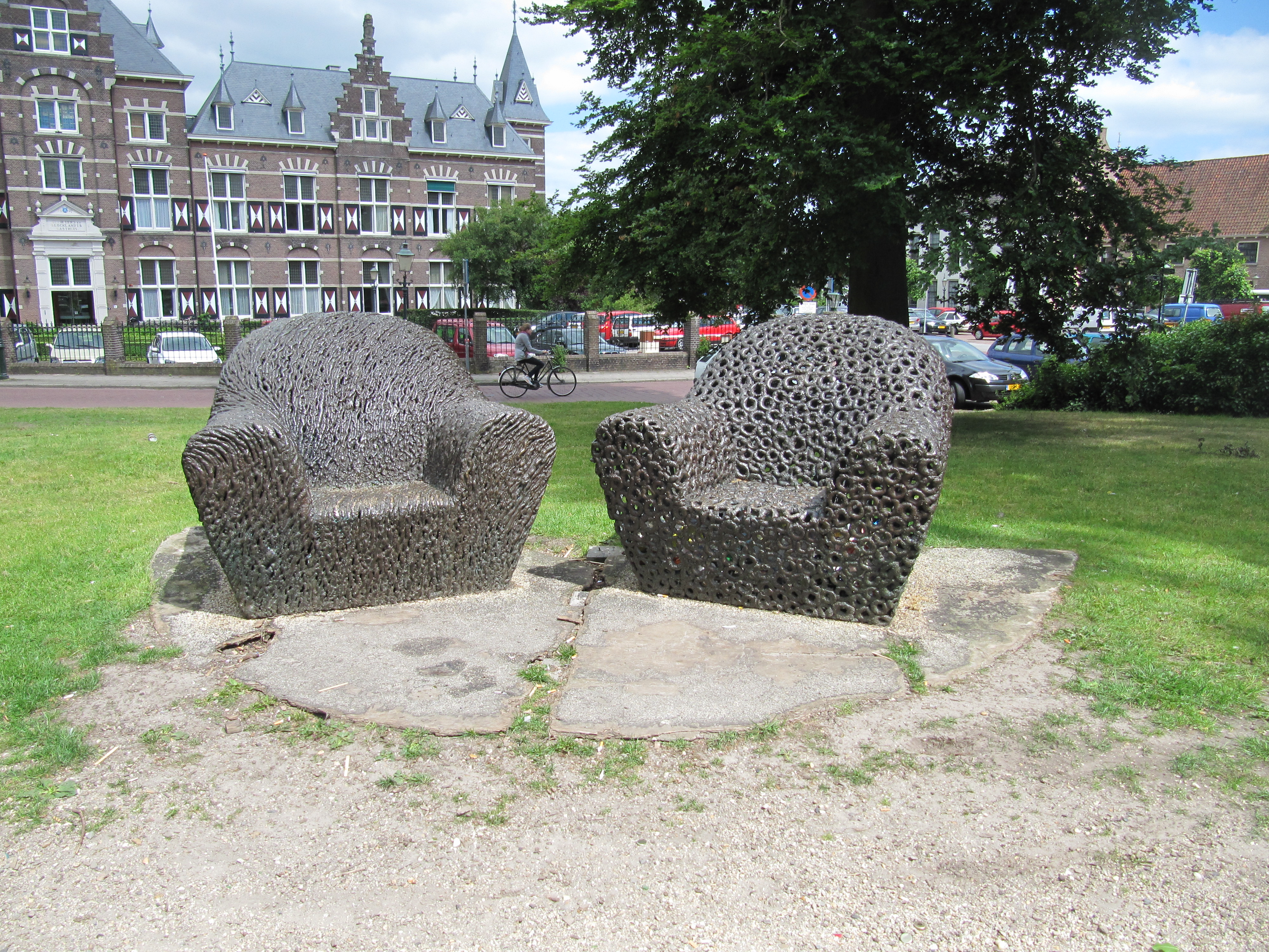 Arty benches (2000) by Gijs Bakker ((part of project "beelden van banken") in Plantsoen West in Amersfoort, The Netherlands